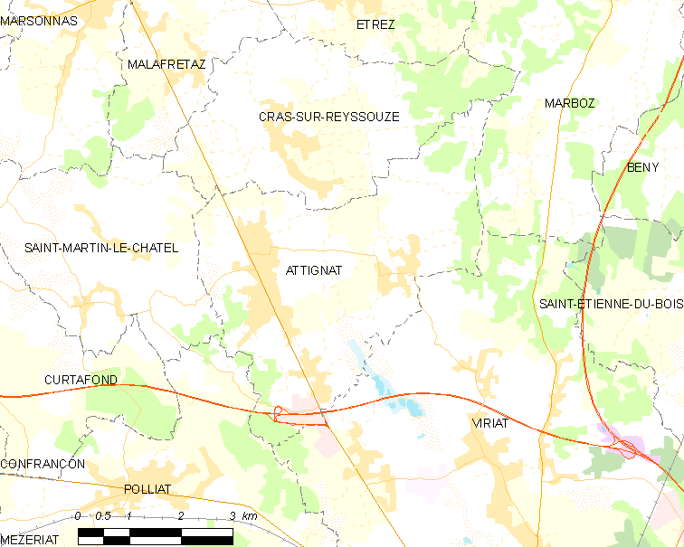 Map of French commune: Attignat Map commune FR insee code 01024.png